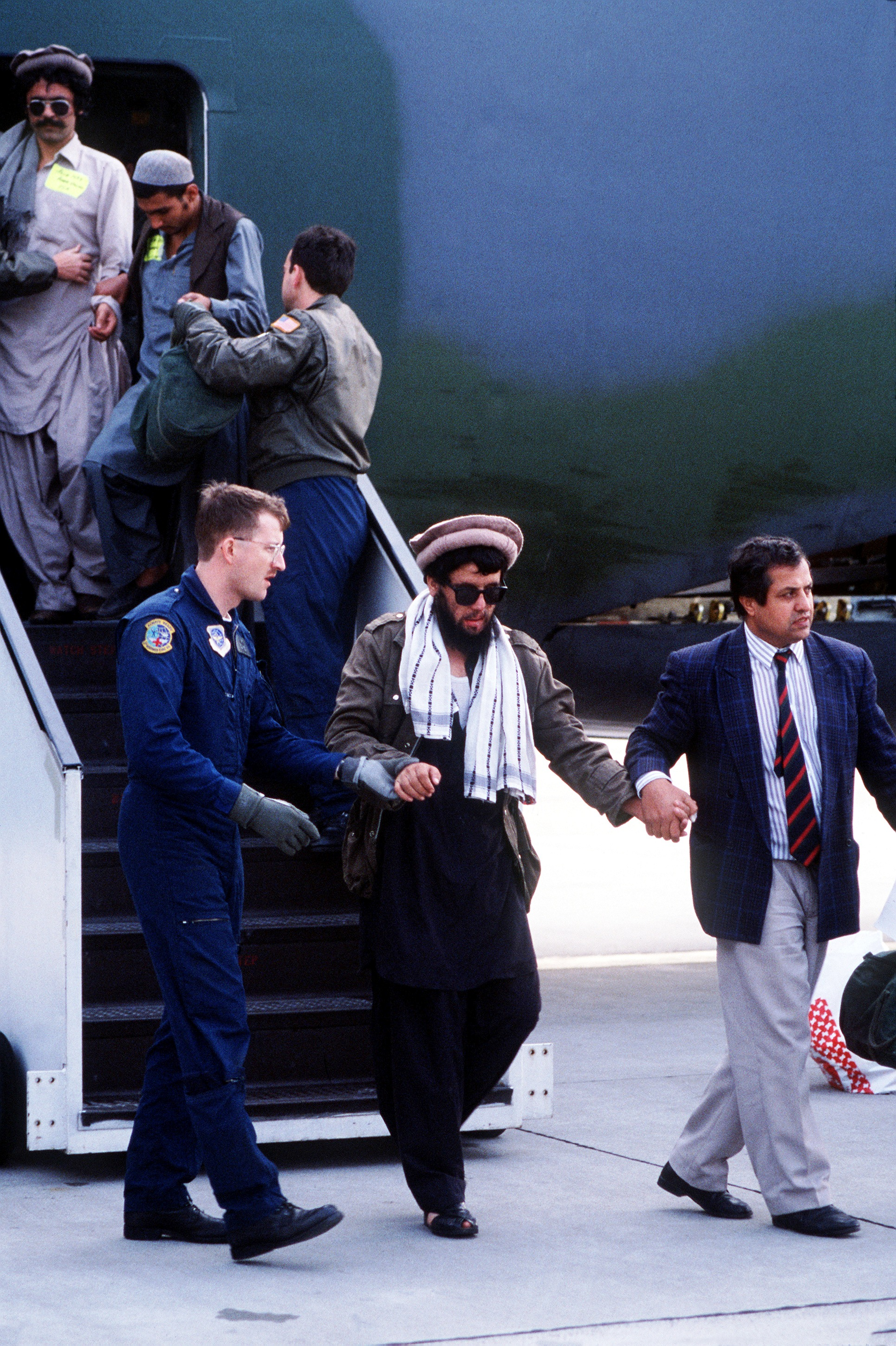 Mujahideen wounded in Afghanistan's civil war are led off of a US C-141B Starlifter aircraft following a medical evacuation flight. Twenty-four rebels wounded were evacuated from Islamabad, Pakistan, and will be taken to hospitals in Europe and the United States for donated medical treatment.